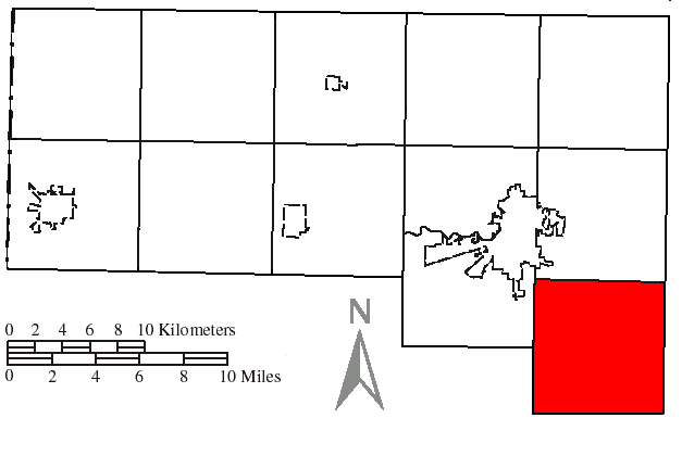 Made by the US Census and modified by myself